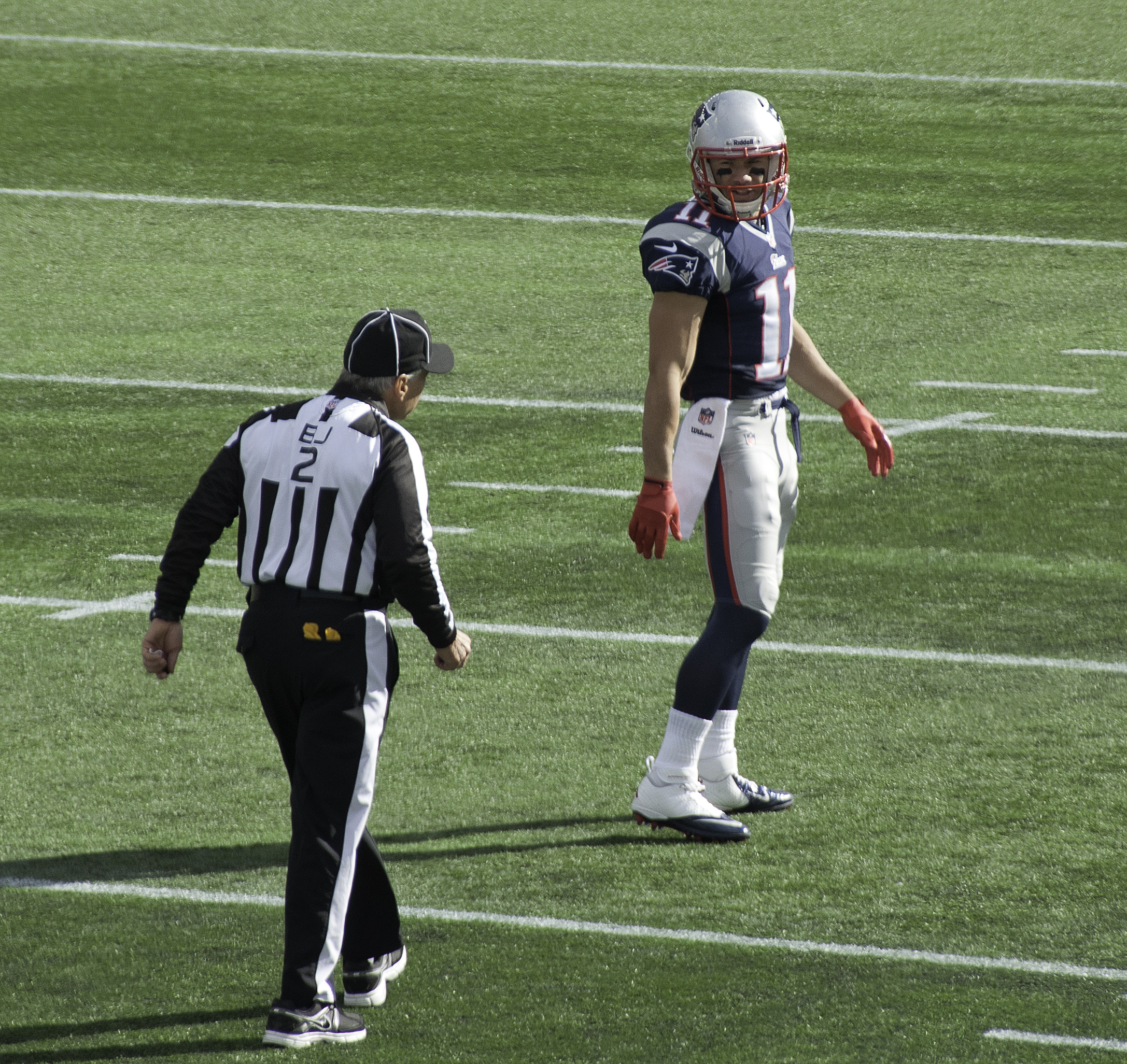 Patriots punt returner/receiver talks to an official before receiving a punt from the Miami Dolphins.